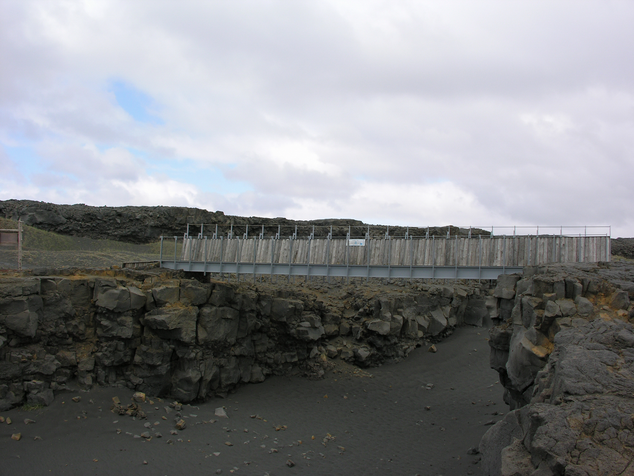 Iceland , The continental divide on Reykjanes peninsula